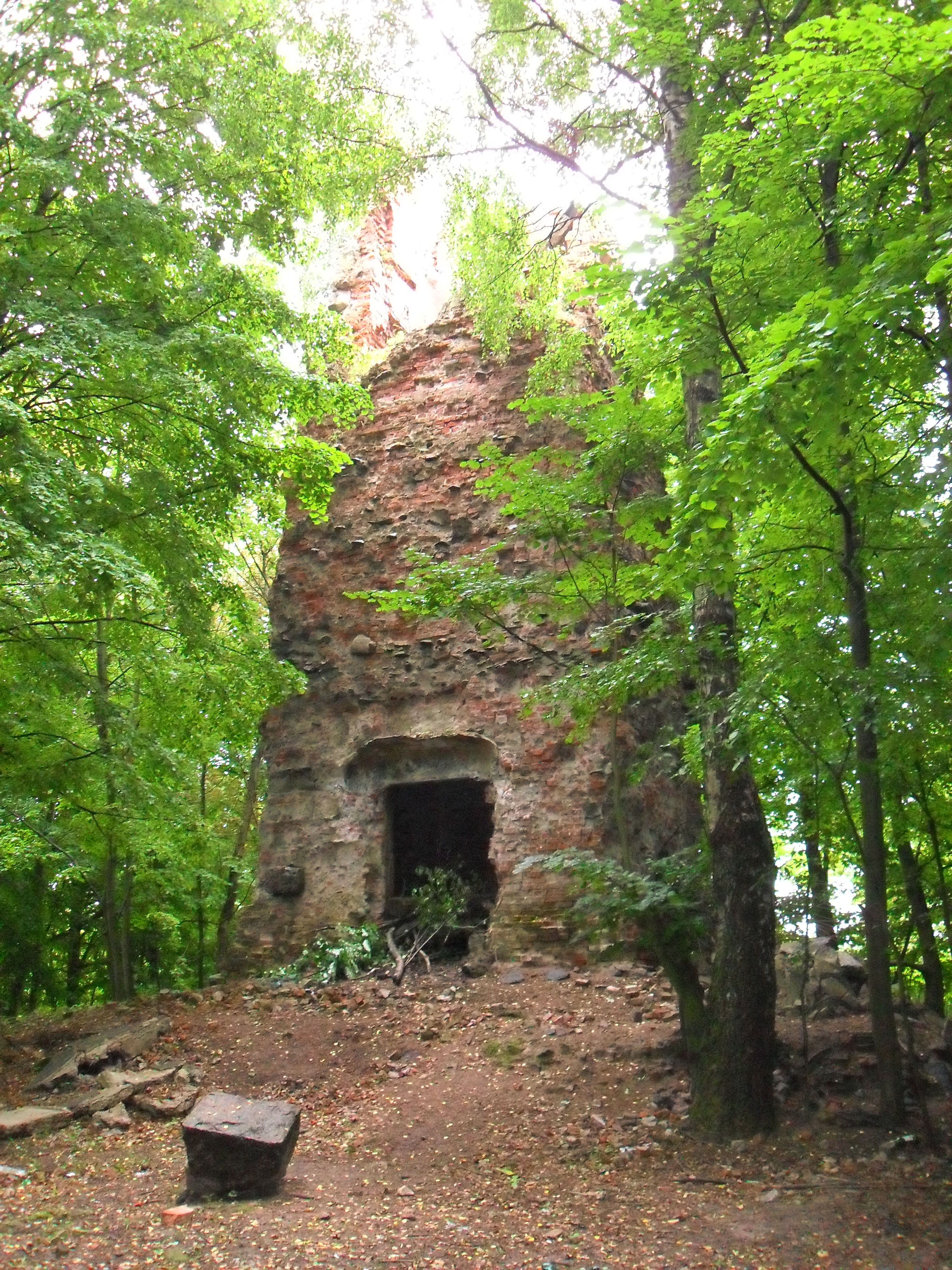 Bismarck tower in Gorino, Kaliningrad